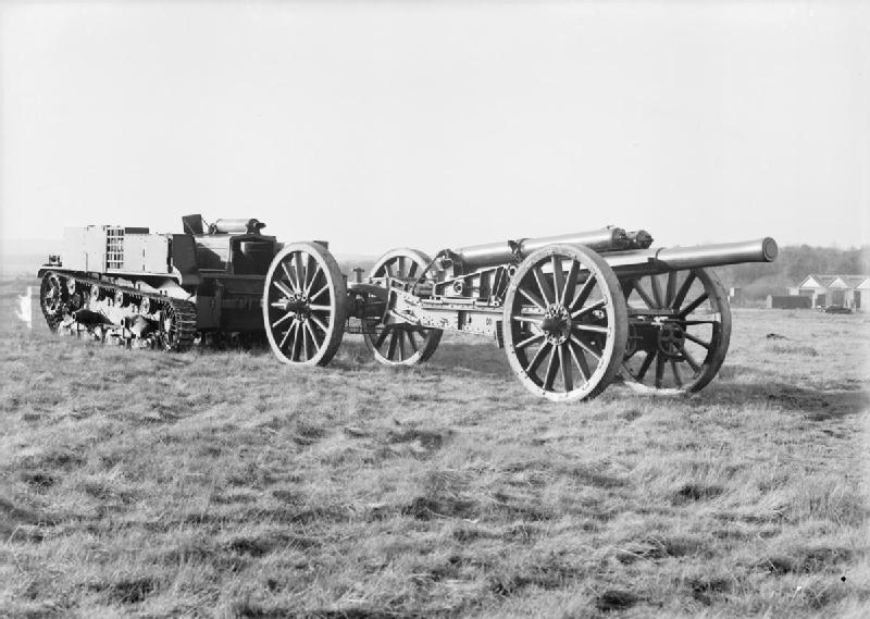 BRITISH MILITARY VEHICLES 1918-1939 Vickers Dragon, Medium Artillery Tractor Mk.IV (fitted with an AEC C1 engine) towing a 60 pounder Mk I gun.